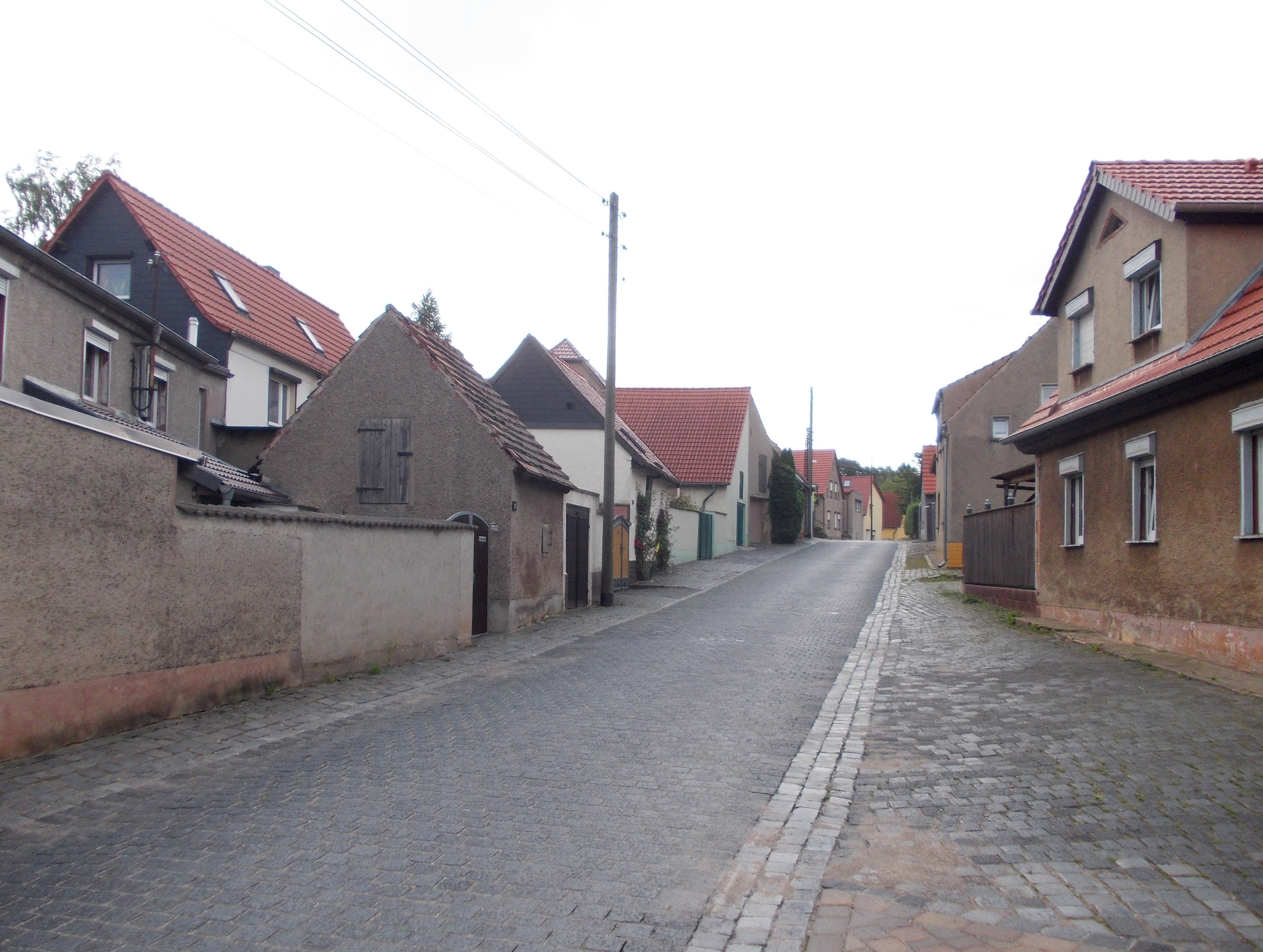 August-Bebel-Strasse in Blankenheim (Mansfeld-Südharz district, Saxony-Anhalt)